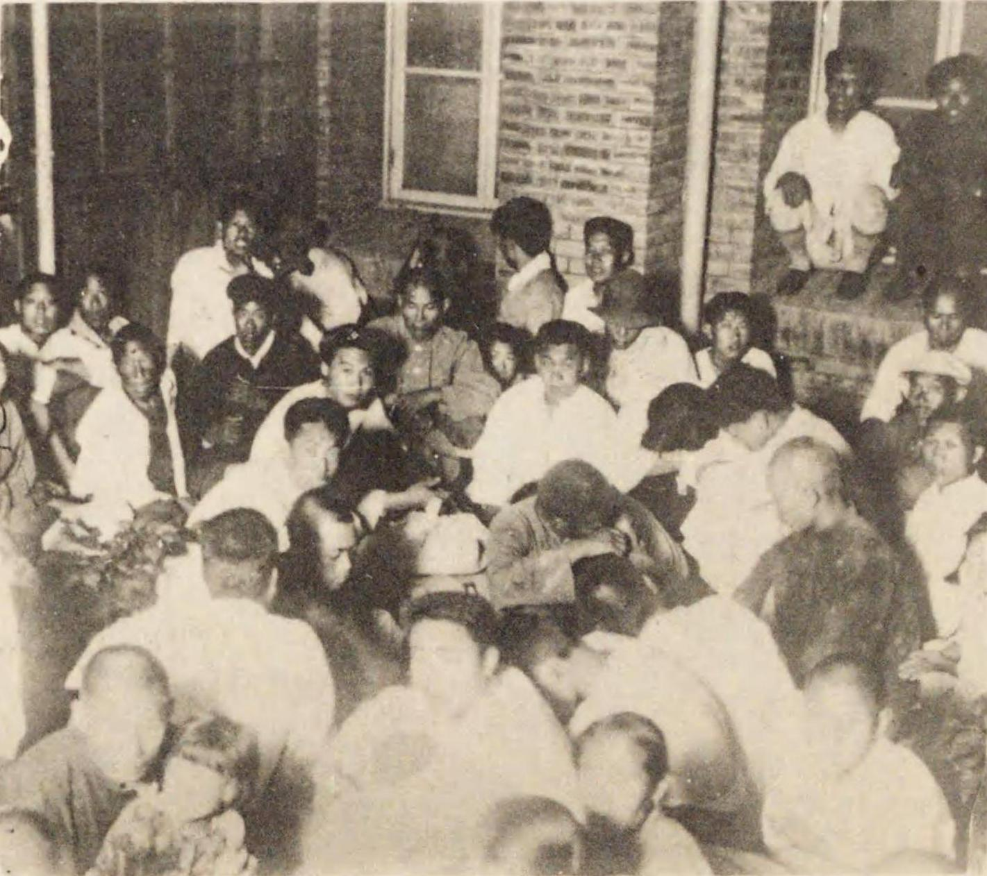 Koreans under the protections of Japanese Police Station, being anxious of the Chinese revenge.